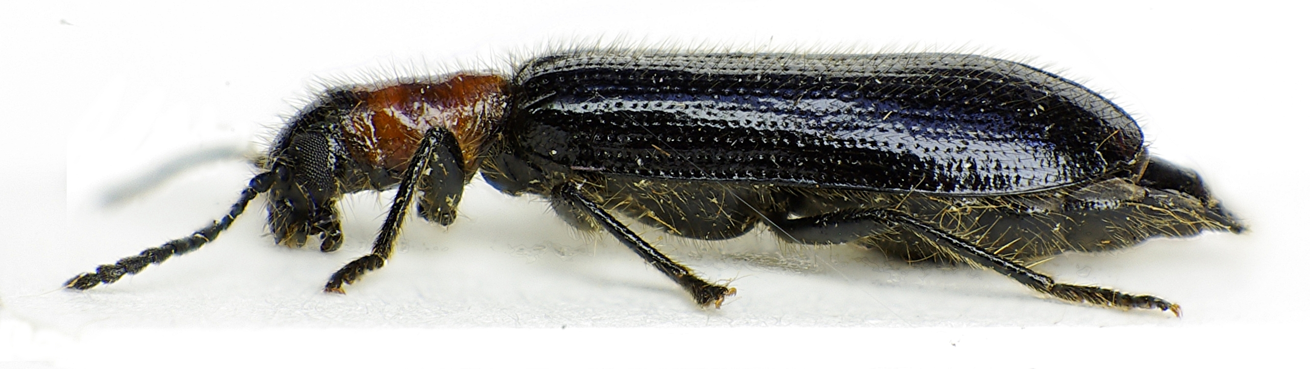 Side of Tillus elongatus